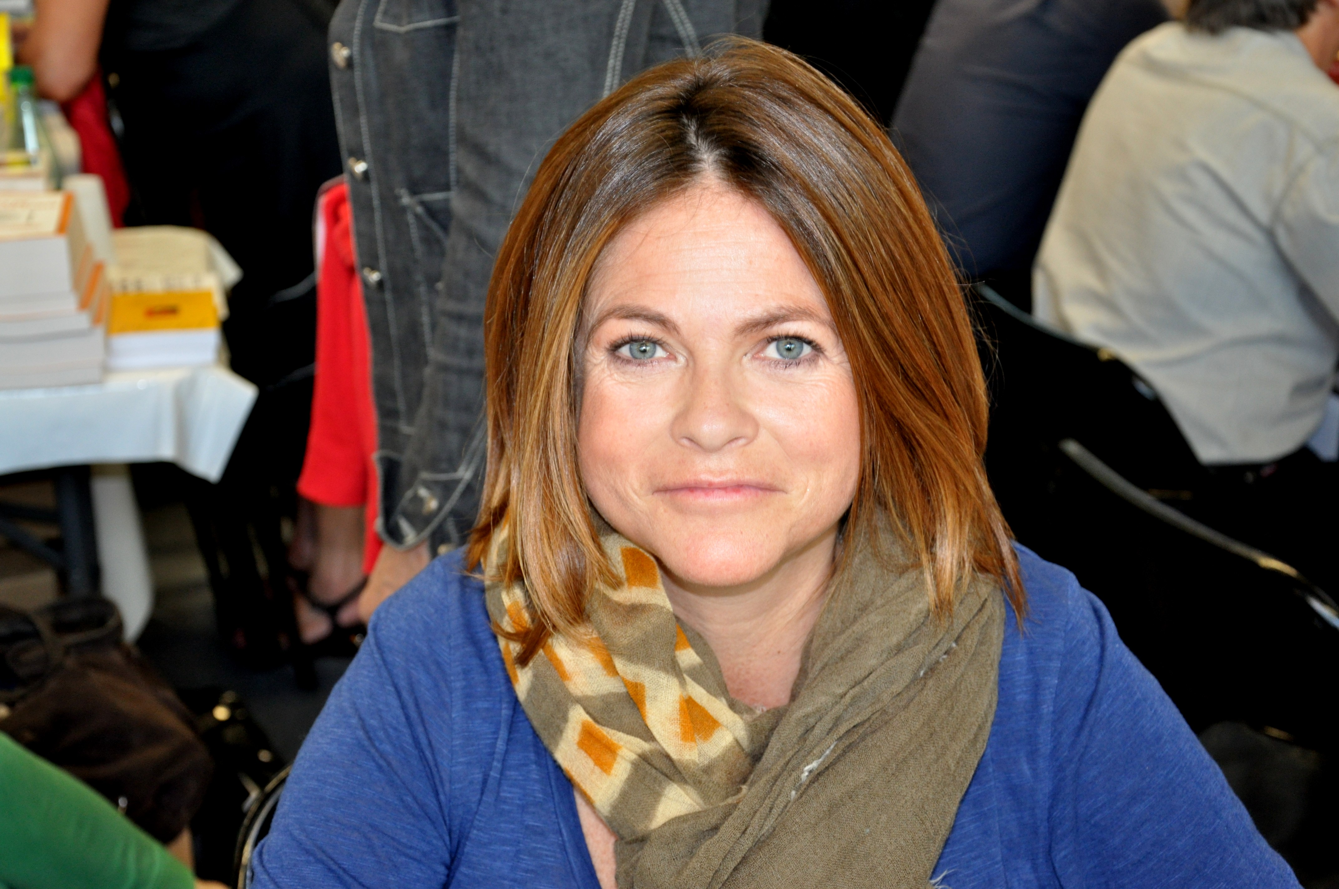 Charlotte Valandrey at the 2012 Mouans-Sartoux Literature Festival.